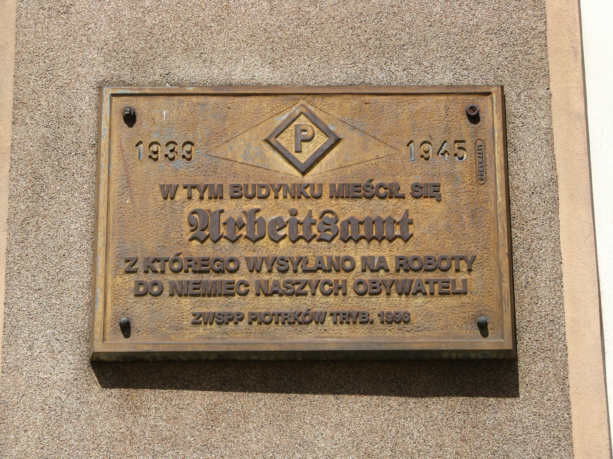 Plaque Arbeitsamt (Job office) in Piotrków Trybunalski